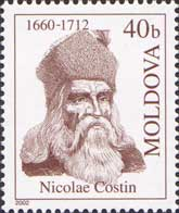 Stamp of Moldova